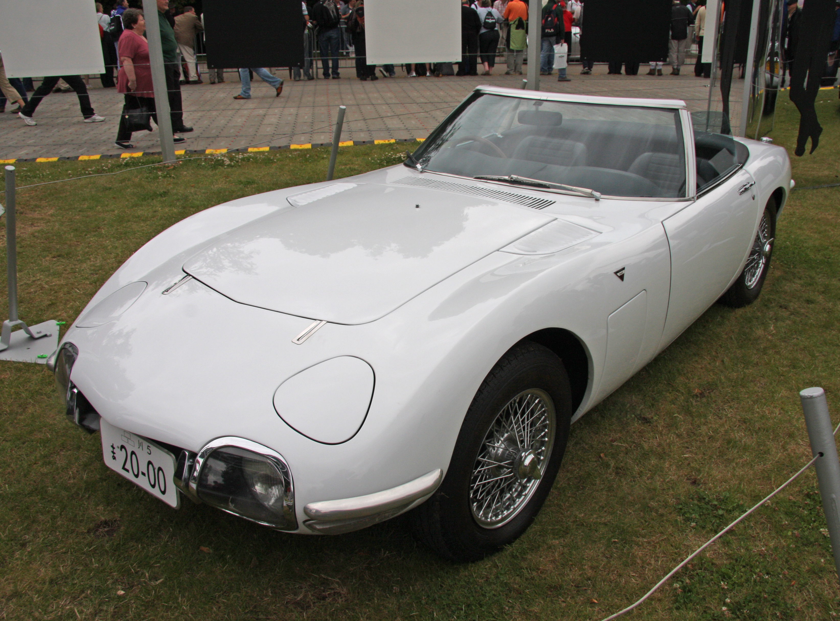 1967 Toyota 2000 GT Roadster